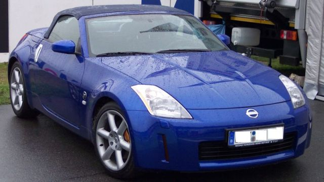 Nissan 350Z Roadster